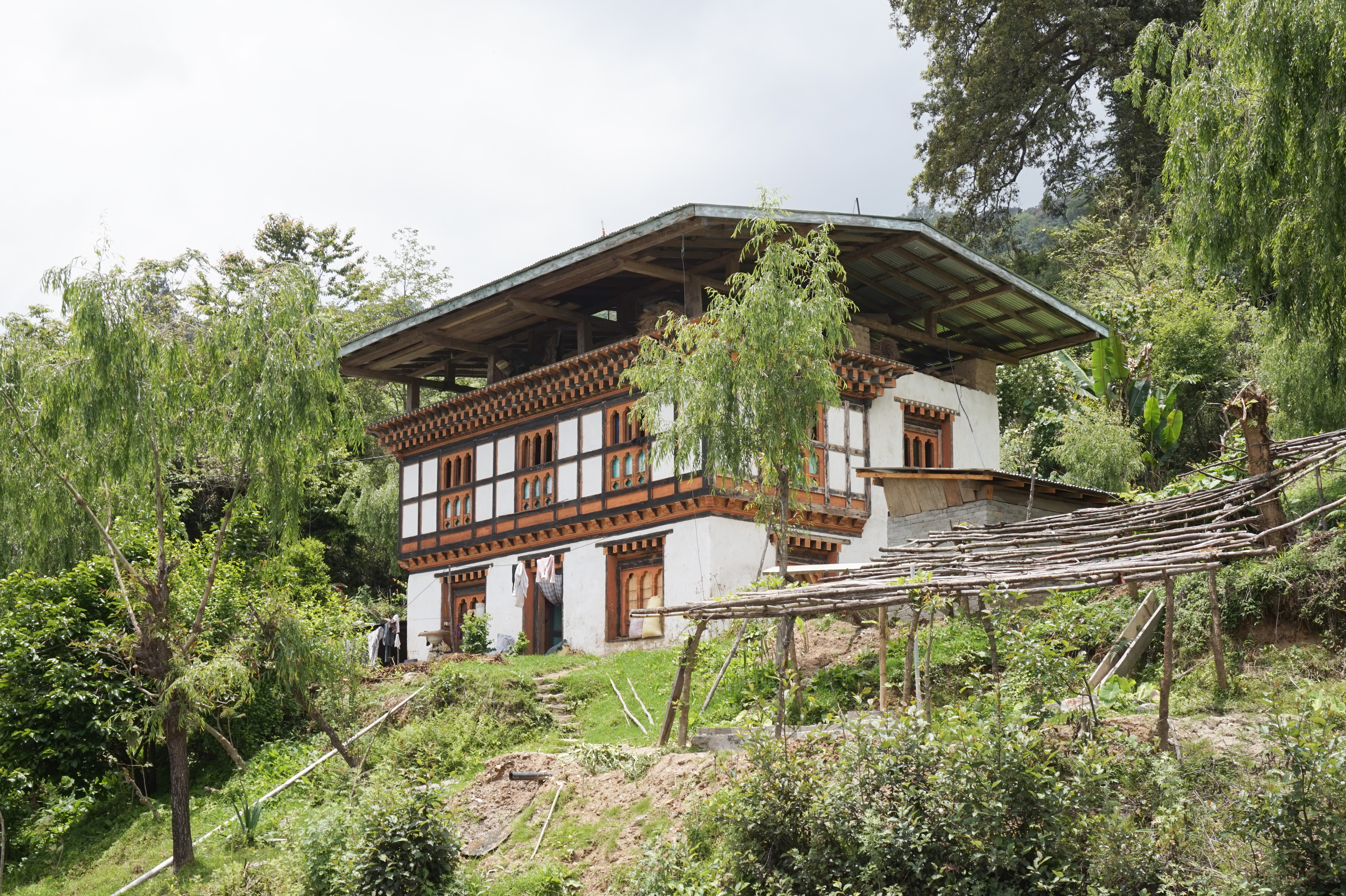 House on Thimphu-Punakha highway, Bhutan